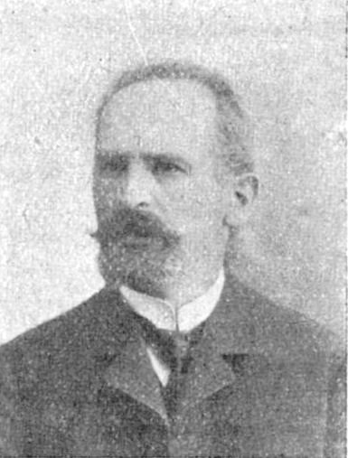 Dr Ludwik Przedborski